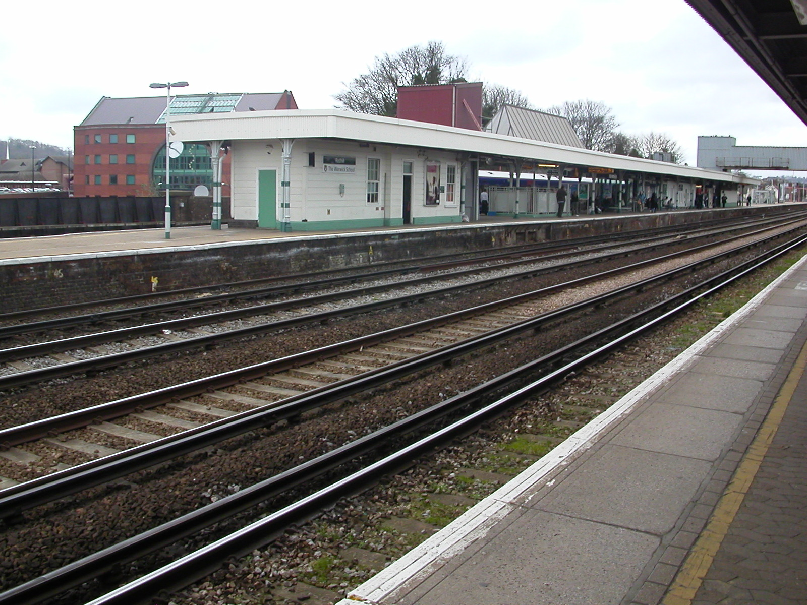 Platforms 1a/1b and 2a/2b at Redhill station. Photographed on 17th March 2007.